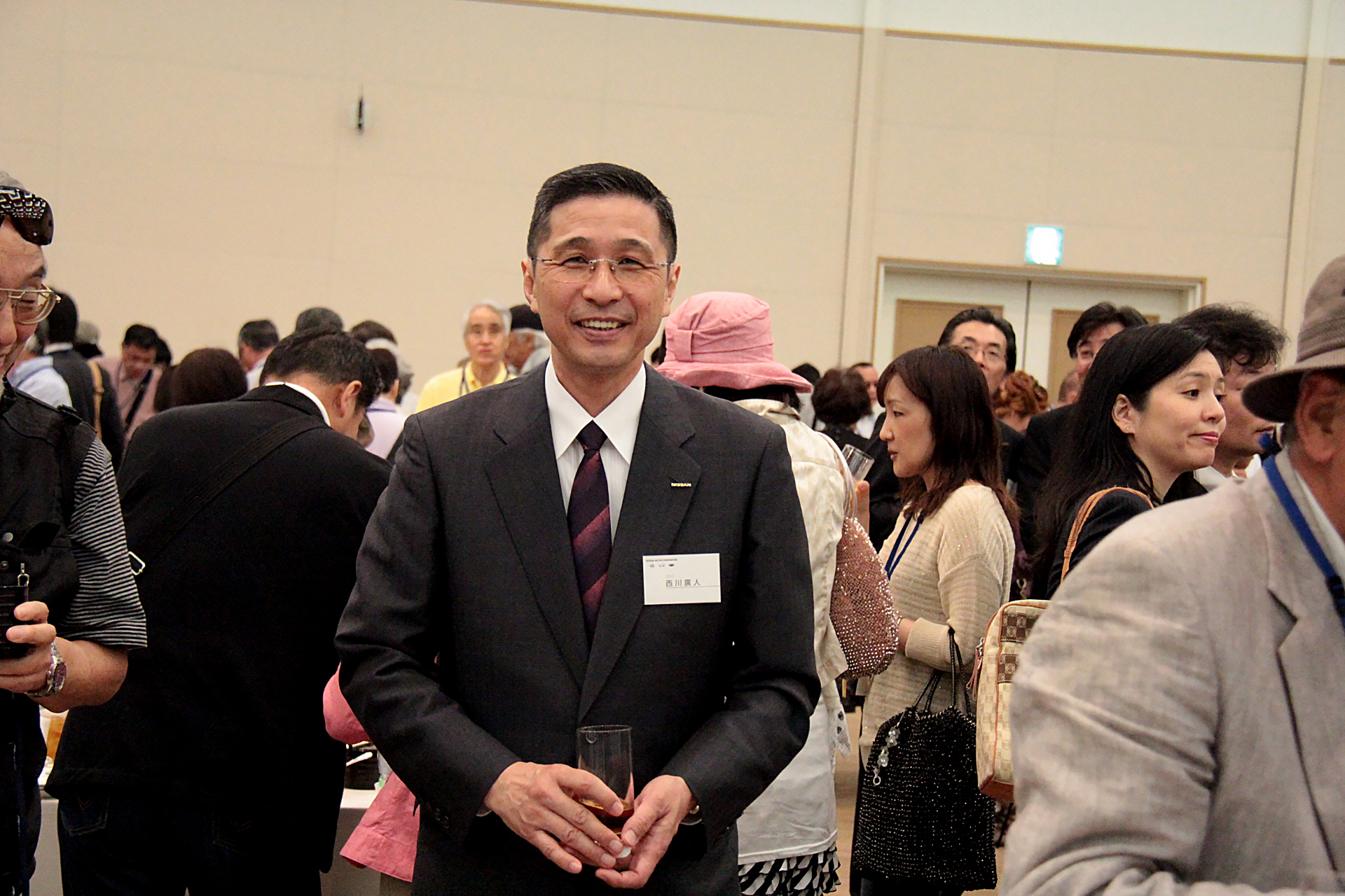 Hiroto Saikawa, EVP Nissan, at Nissan's shareholder meeting, June 24, 2014 in Yokohama